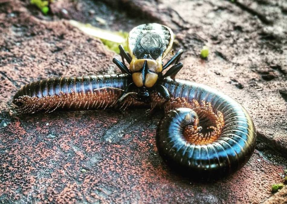 Millipede assassin, a carnivorous insect, attacking a millipede in Port Elizabeth, South Africa